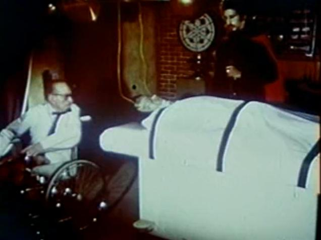 A screenshot from Dracula vs. Frankenstein